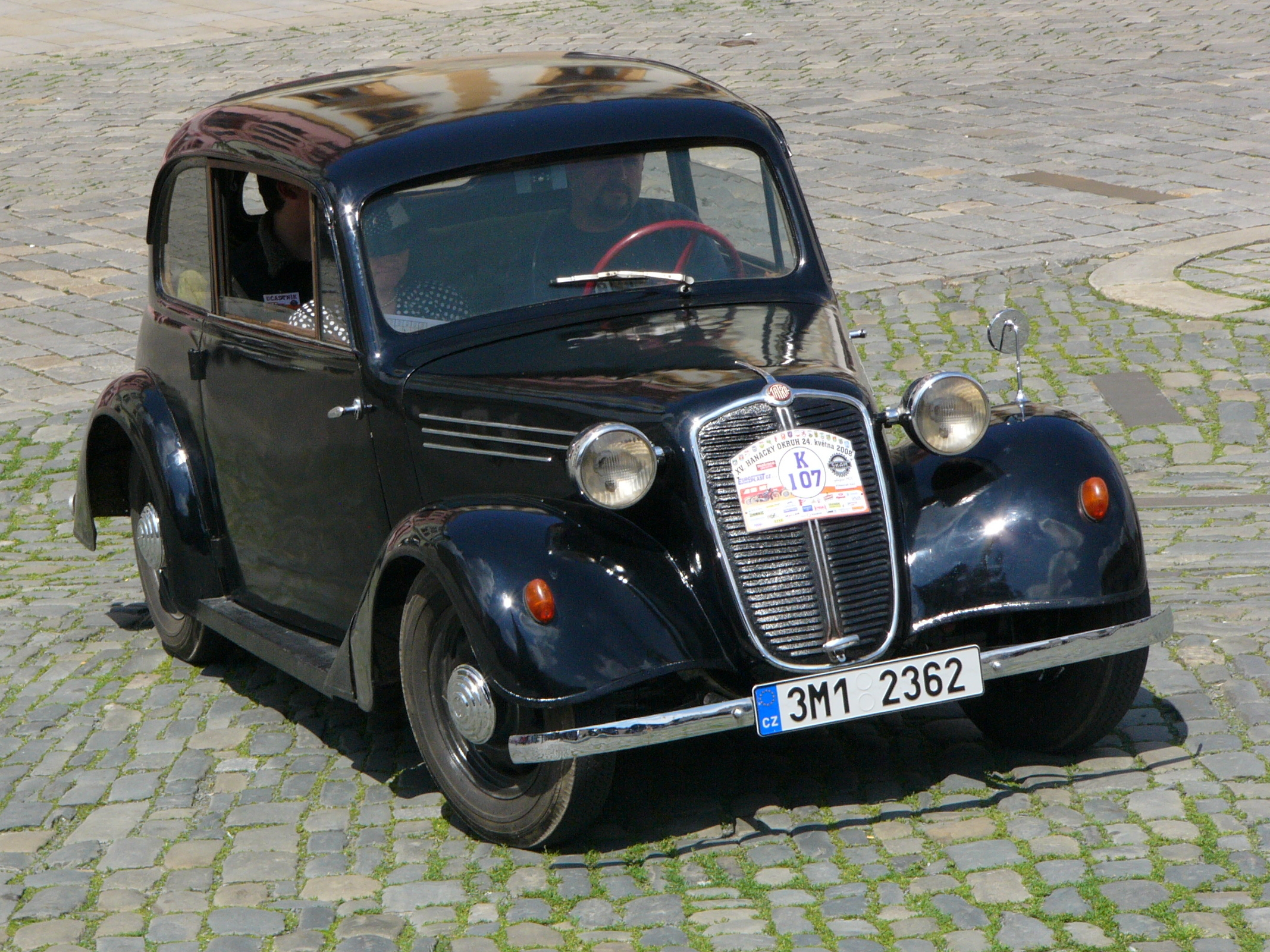 Tatra 57 B. This particular car was manufactured in 1942.